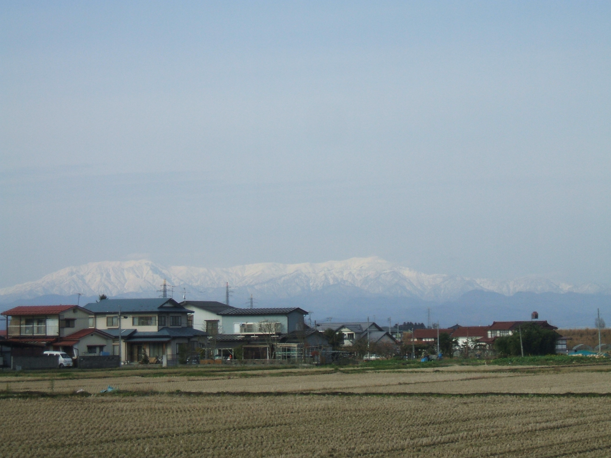 Landscape of Machikita-machi town Kami-Arakuda area. Machikita-machi chi town if a part of Aizuwakamatsu City, Fukushima.